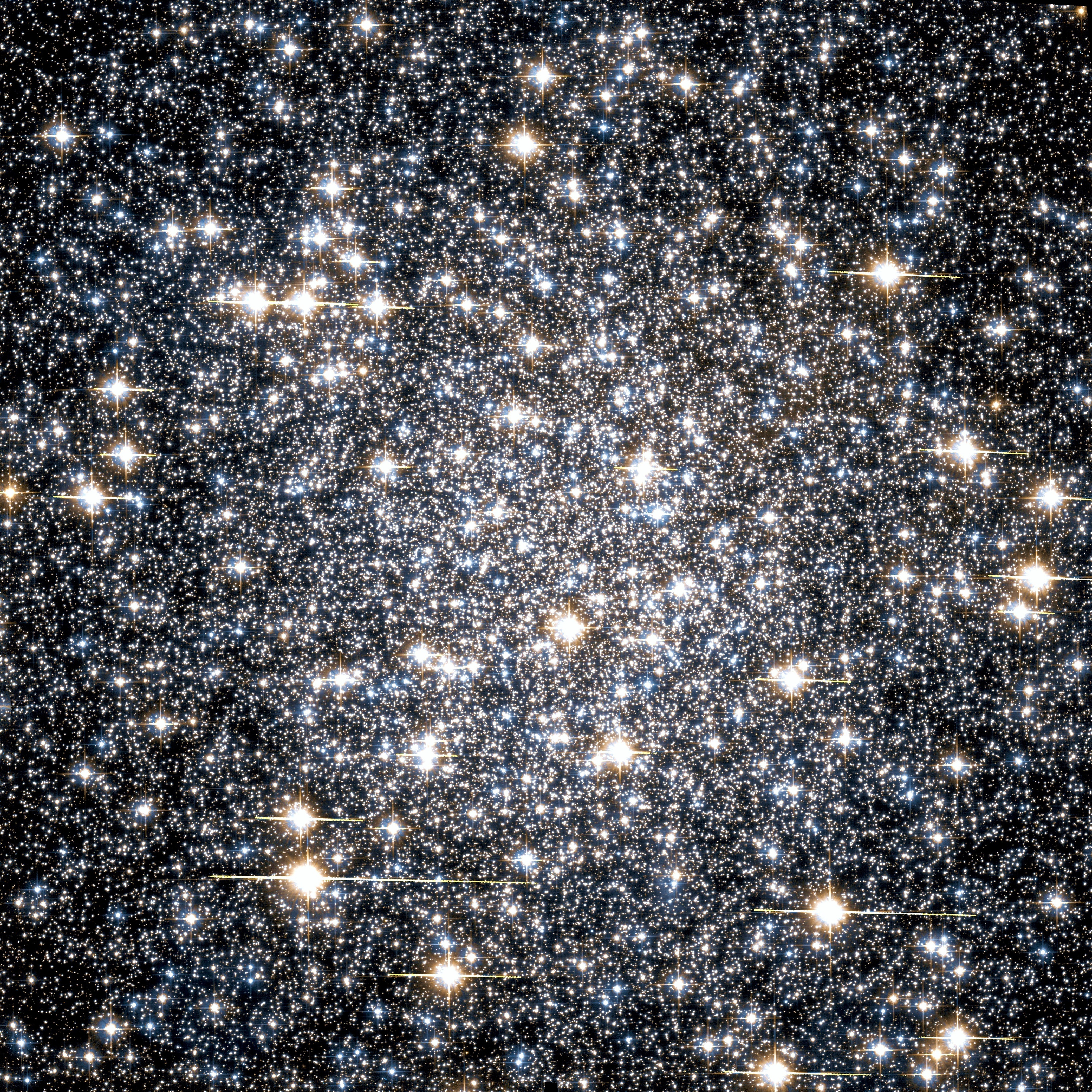 Messier 22 globular cluster by Hubble Space Telescope; 3.5′ view